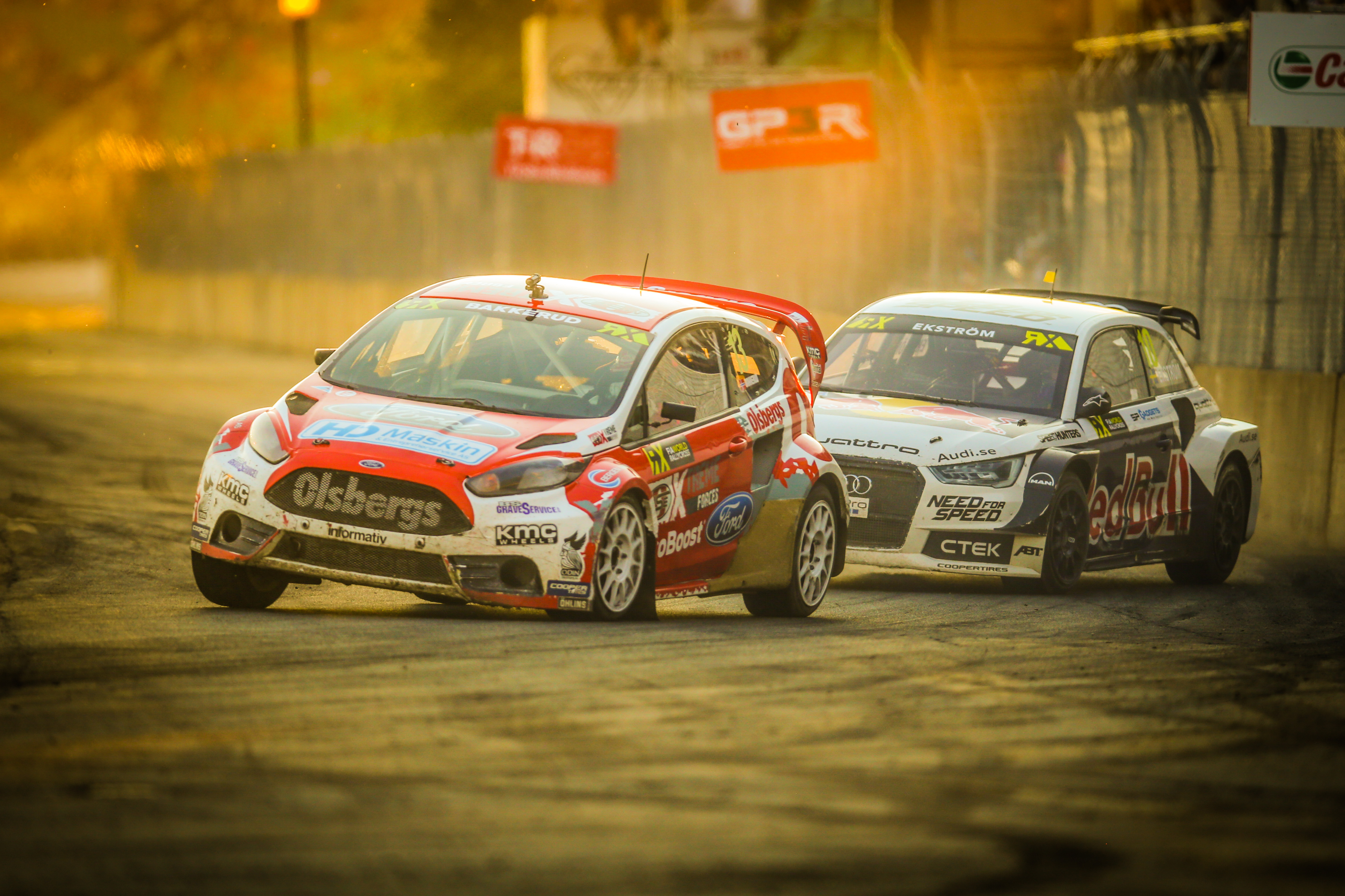 Andreas Bakkerud leads Mattias Ekström at Round 7 of the 2015 World Rallycross Championship at Circuit Trois-Rivières, Canada.